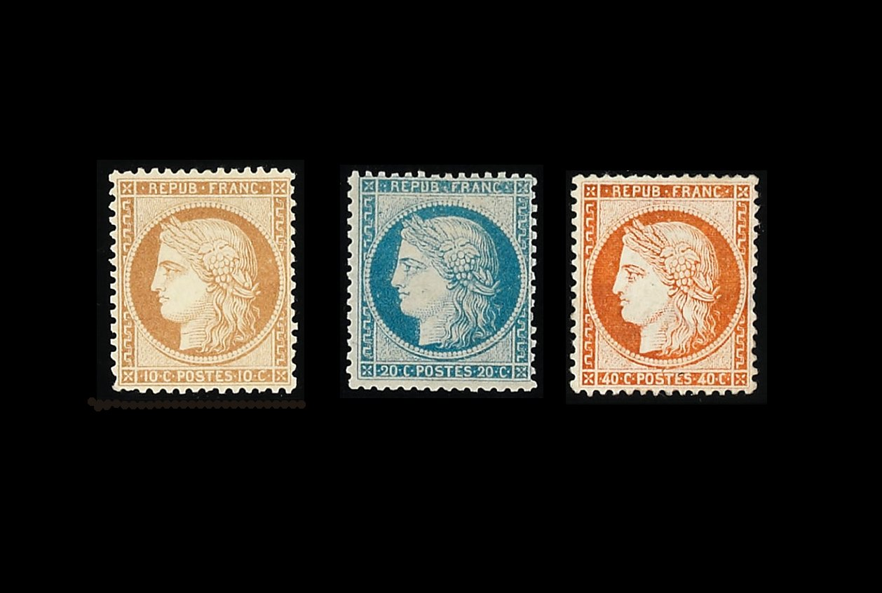 Stamps of France / Ceres emission of Paris / french-prussian war of 1870-1871 / Ceres on stamps